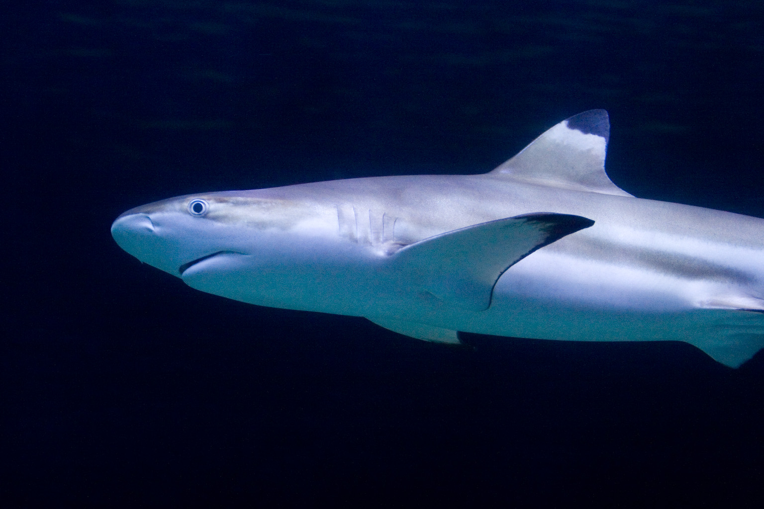 Blacktip reef shark (Carcharhinus melanopterus) at the Vancouver Aquarium